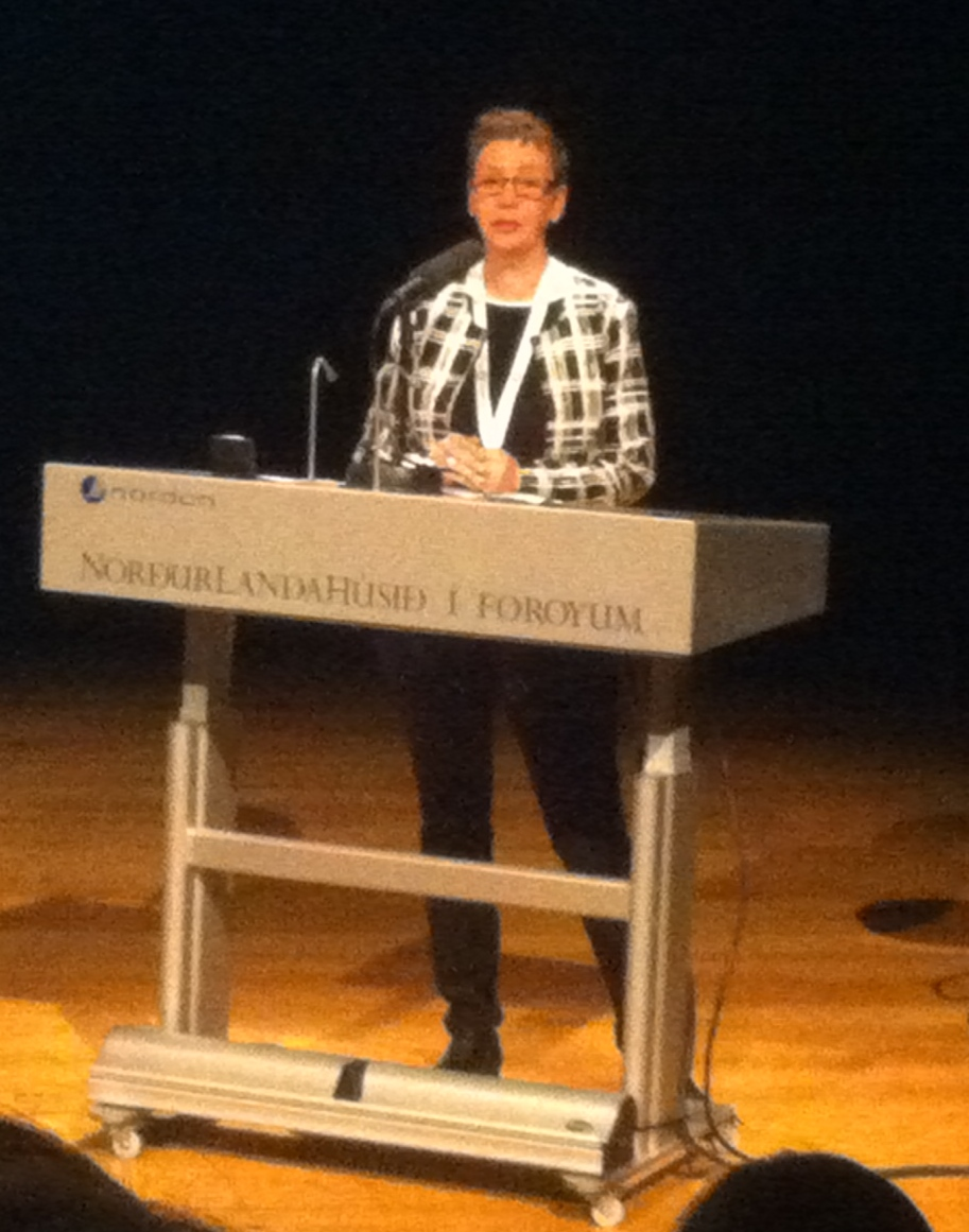 Eyðgunn Samuelsen has her first official task as the new Social Minister of the Faroe Islands, when she opened the first ever Autism conference in the Faroe Islands. It was held in the Nordic House in Tórshavn on 17 and 18 September 2015.